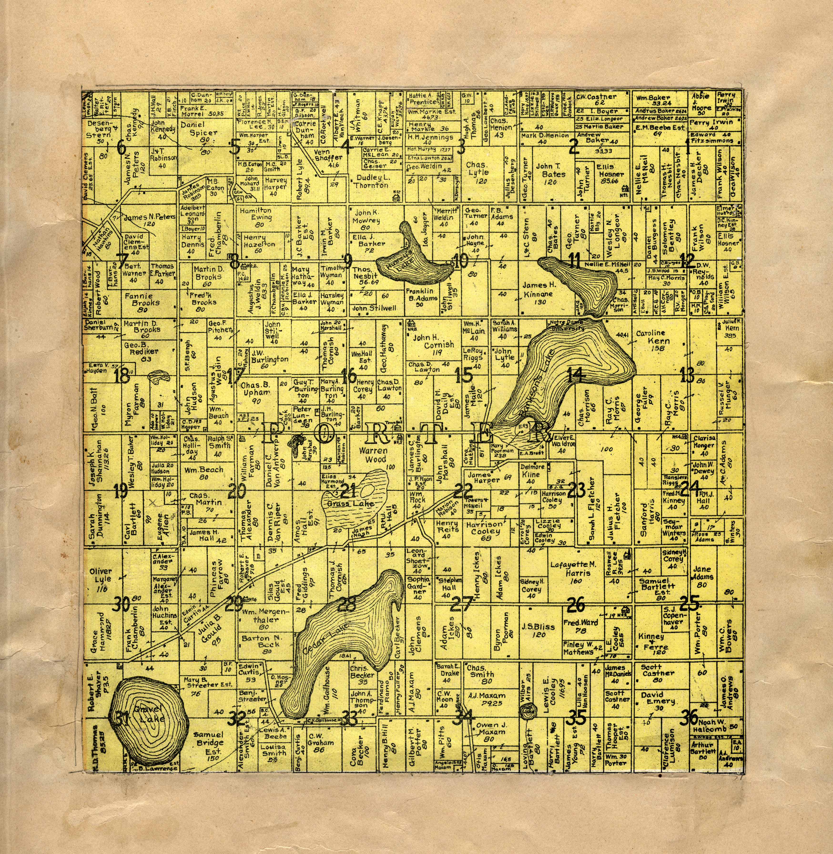 Digital scan of the Porter Township portion of a larger 1906 map of Van Buren County, Michigan. The county map was cut into township-sized pieces, and the pieces were later found pasted into an 1895 atlas of Van Buren County, now in the collection of the Michigan State University Map Library. Each township map cut from the 1906 county map was pasted onto a blank page opposite the map of the corresponding township in the 1895 county atlas. Shows parcel boundaries and names of property owners, Public Land Survey System township and section numbering, roads, railroads, residences, schools, churches, municipalities, and water features. Print version was cut from map: Orton, M. K. A farm map of Vanburen County, Michigan / compiled from official records and local inspection by W.H. Goss, County Surveyor ; drawn by M.K. Orton. Rockford, Ill. : W.W. Hixson, [1906]. MSU Libraries catalog record